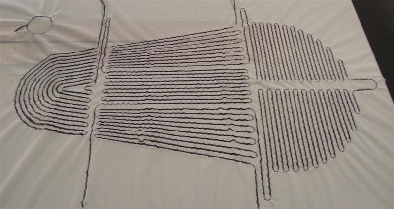 Carbon fiber heating structure by TFP